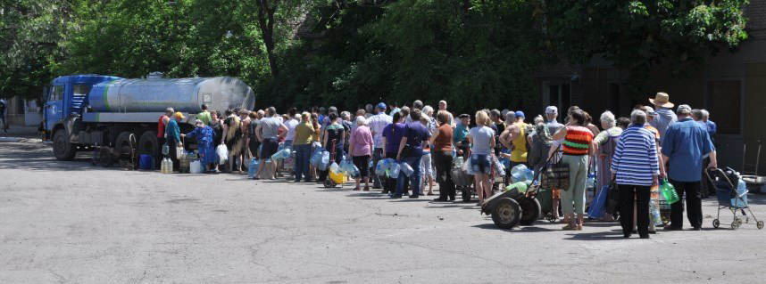 Serving 150,000 people in five locations (Kirovsk, Bryanka, Stakhanov, Pervomaisk and Perevalsk) of Luhansk Oblast in Eastern Ukraine. UNICEF Ukraine steps up the support as the water supply in the region is damaged and electricity is cut off. And obviously, the demand for clean water is big! Photo copyright: People in Need